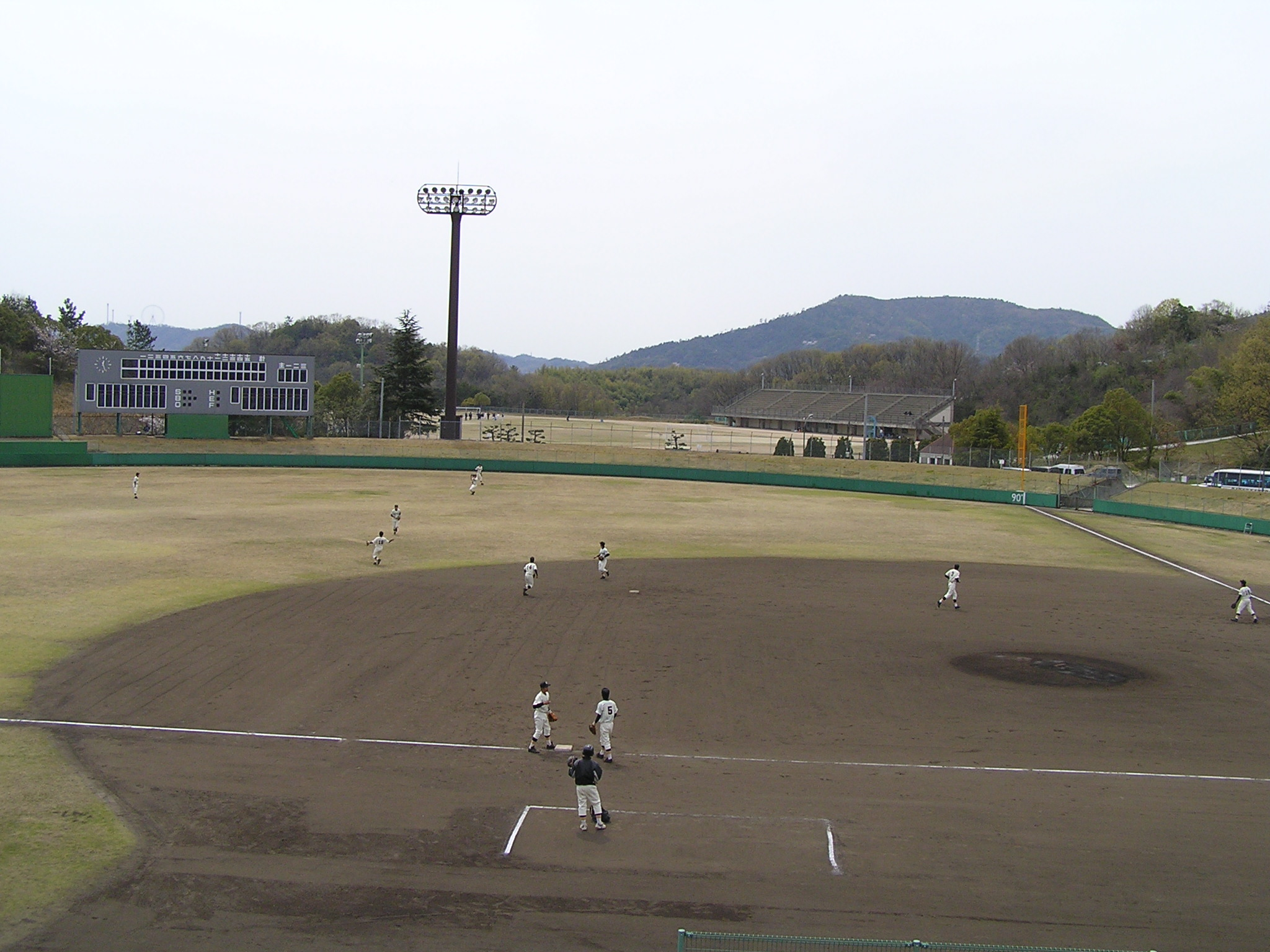 Kurashiki Nakayama park ballpark 2